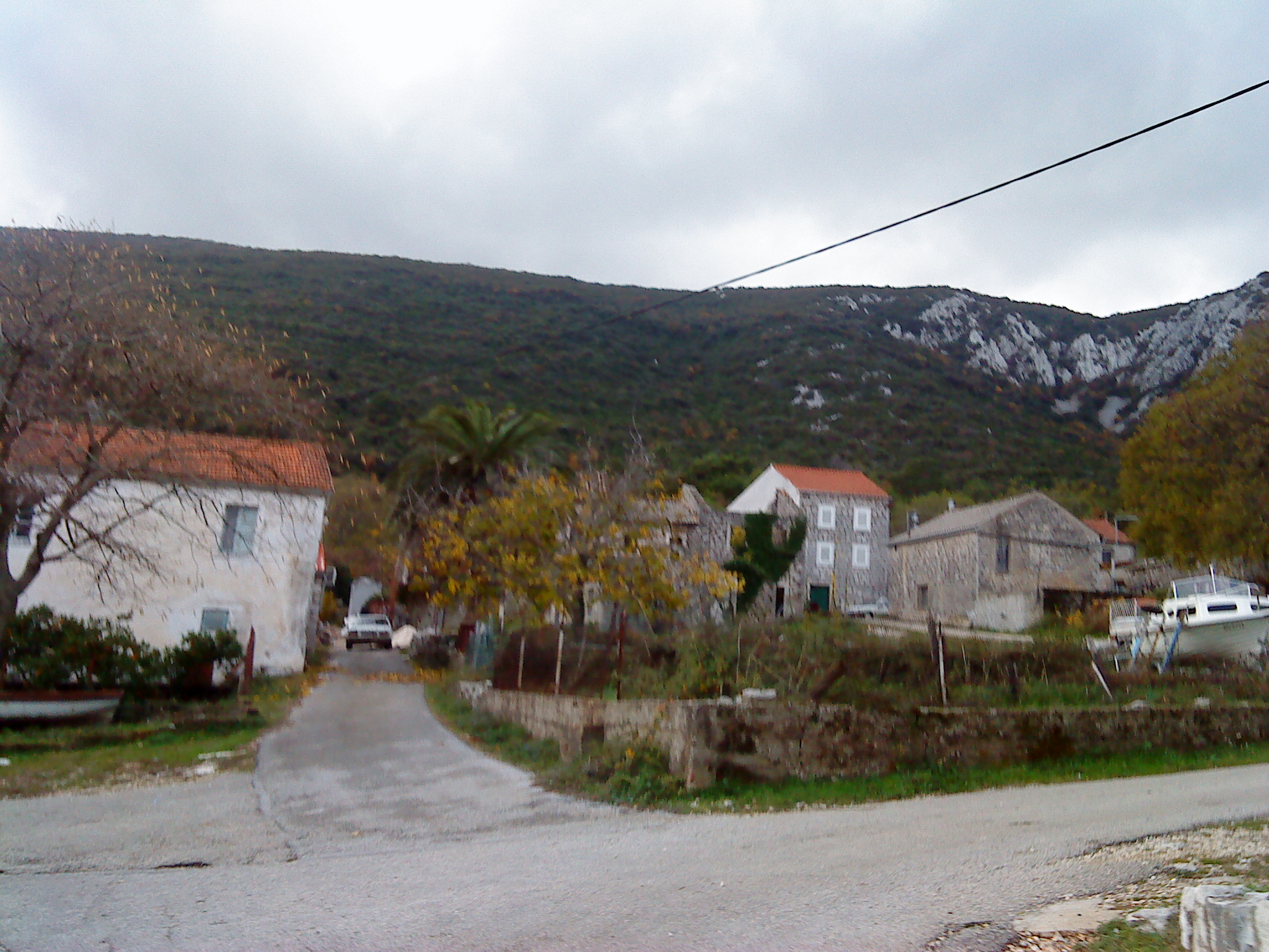 Osobjava